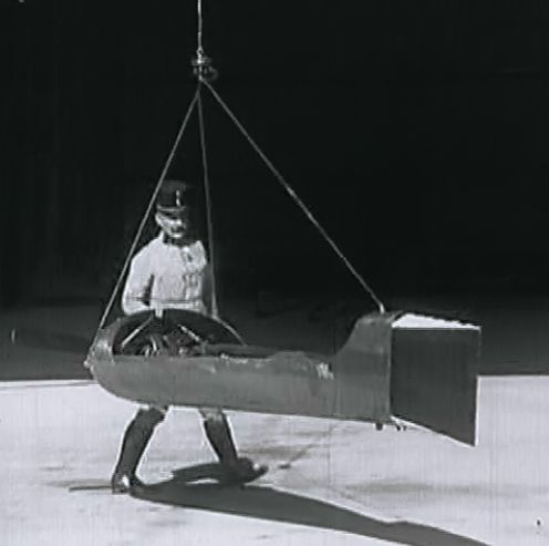 Spy basket for a airship in the Austrian-Hungary Army. Demonstration-film, filmed by a Hangar. Screencapture.